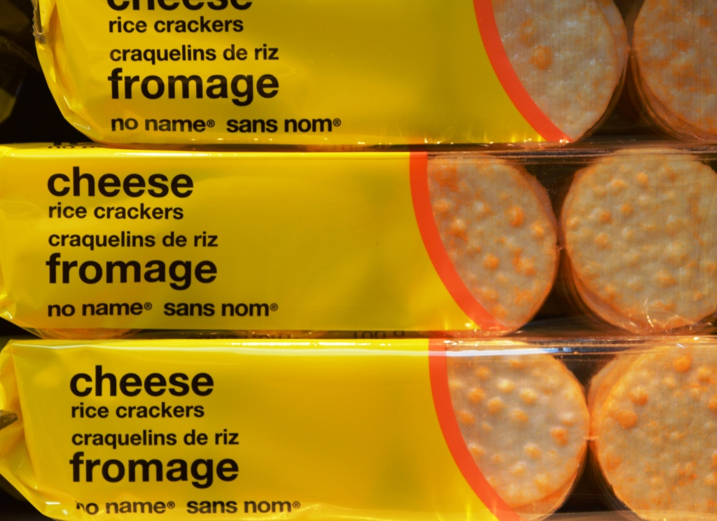 No name cheese rice crackers